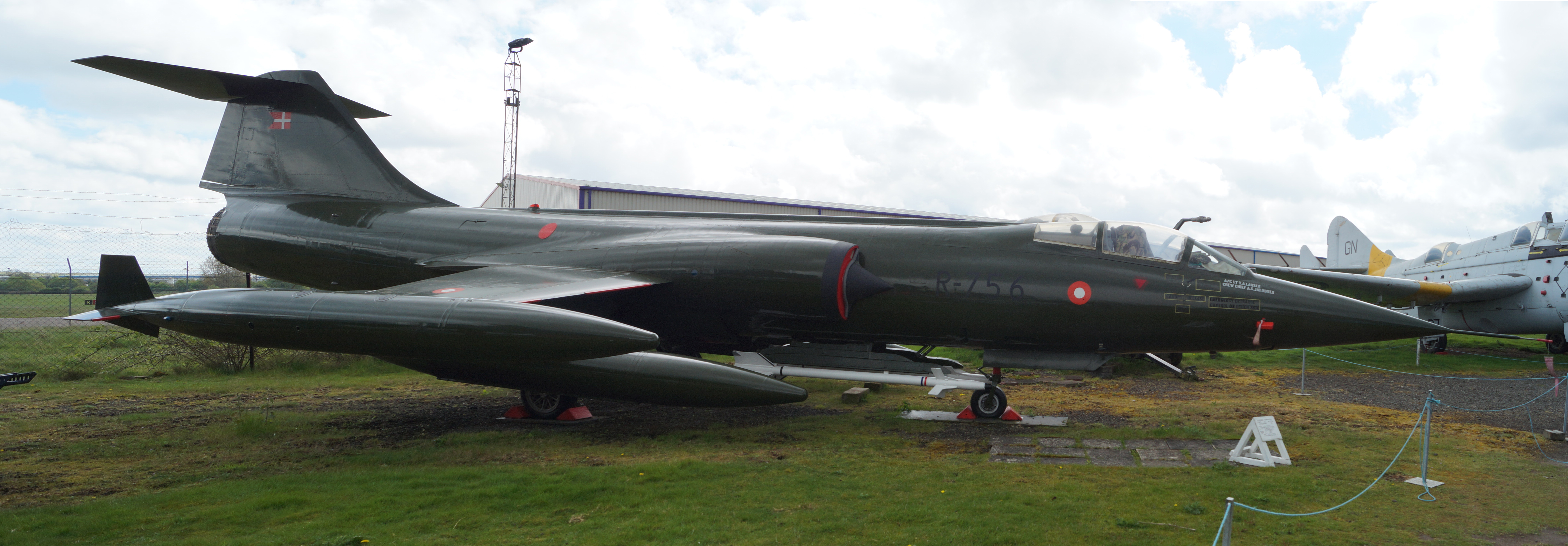 Lockheed F-104G Starfighter R-756 at Coventry Airport - Midland Air Museum.